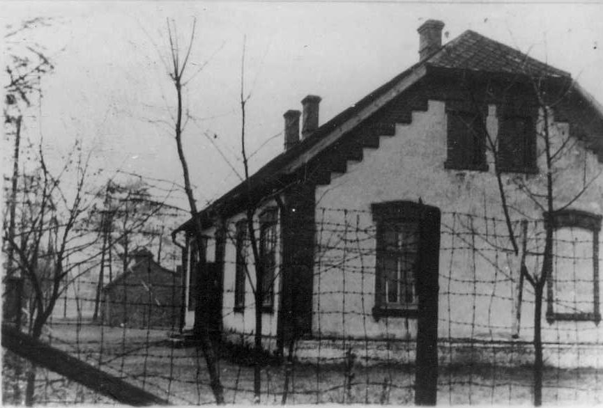 Two of three buildings of the Budy sub-camp of Auschwitz Birkenau. Picture taken shortly after WWII.